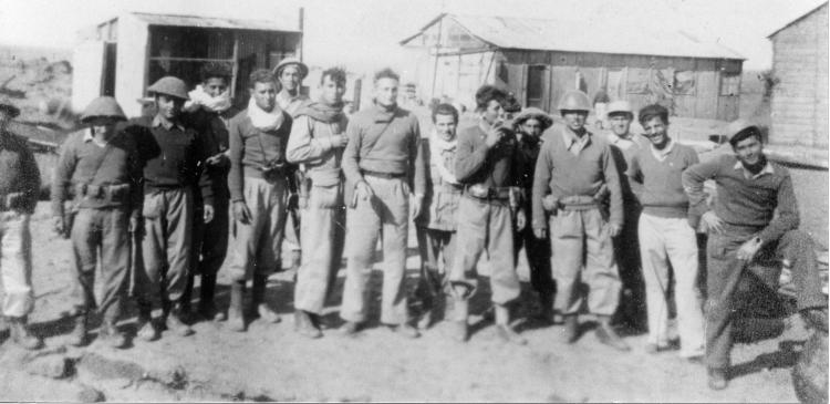 Nirim. 1948